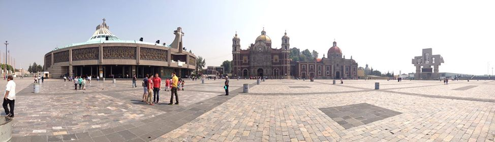 Panoramic view outside of the Basilica of Our Lady of Guadalupe.